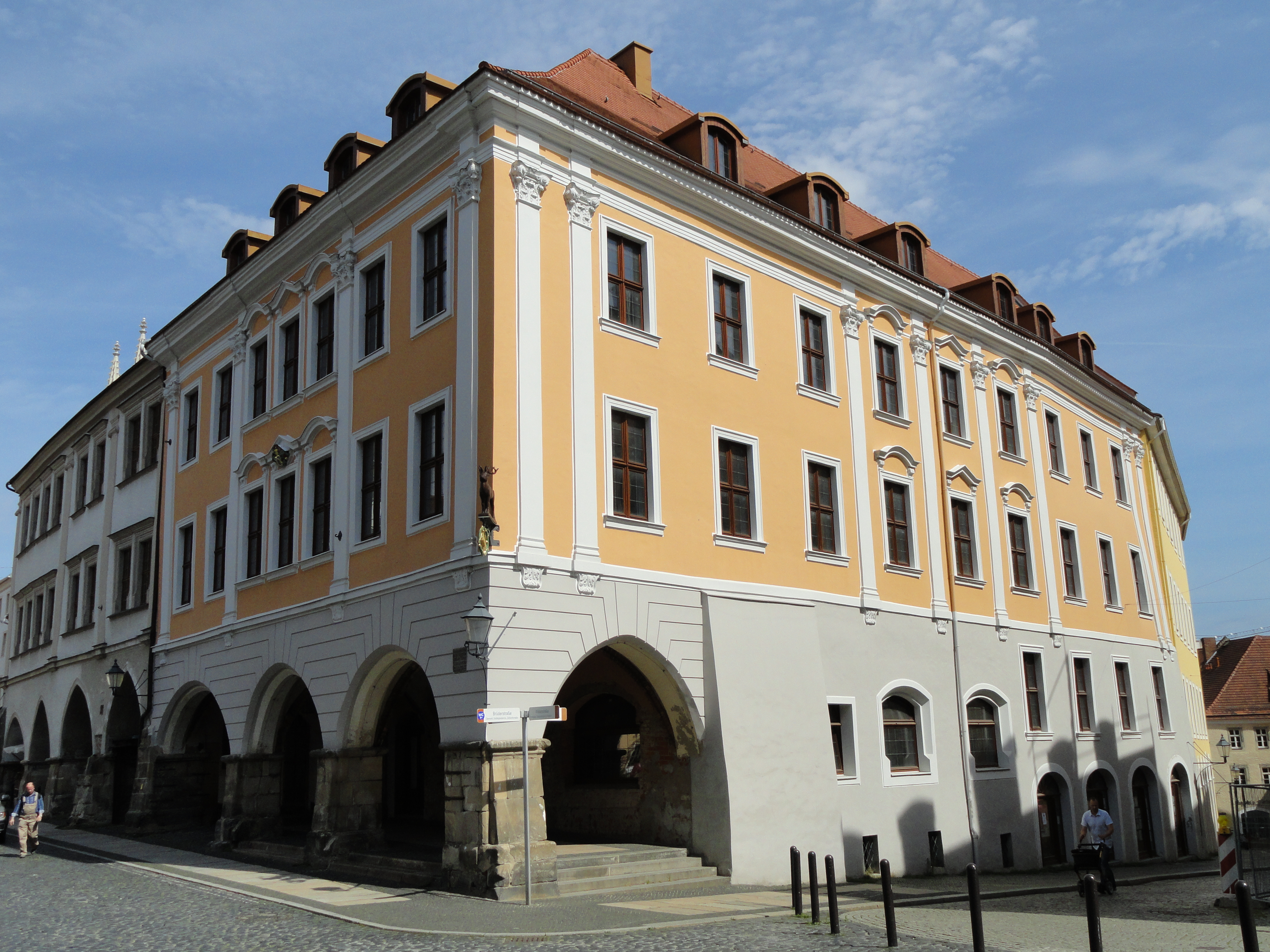 square "Untermarkt", the building in the center is called "Brauner Hirsch" (engl.: brown hart) in Görlitz, Saxony